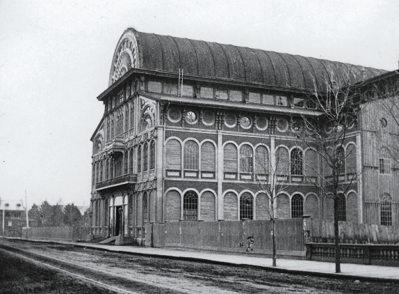 Side view of the Crystal Palace in Montreal. Dated 1866, this would be at the building's first location, on Victoria Street, in what is now downtown Montreal. Silver salts on paper mounted on card - Albumen process. Original: 8 x 5 cm. Gift of Mr. George Dudkoff